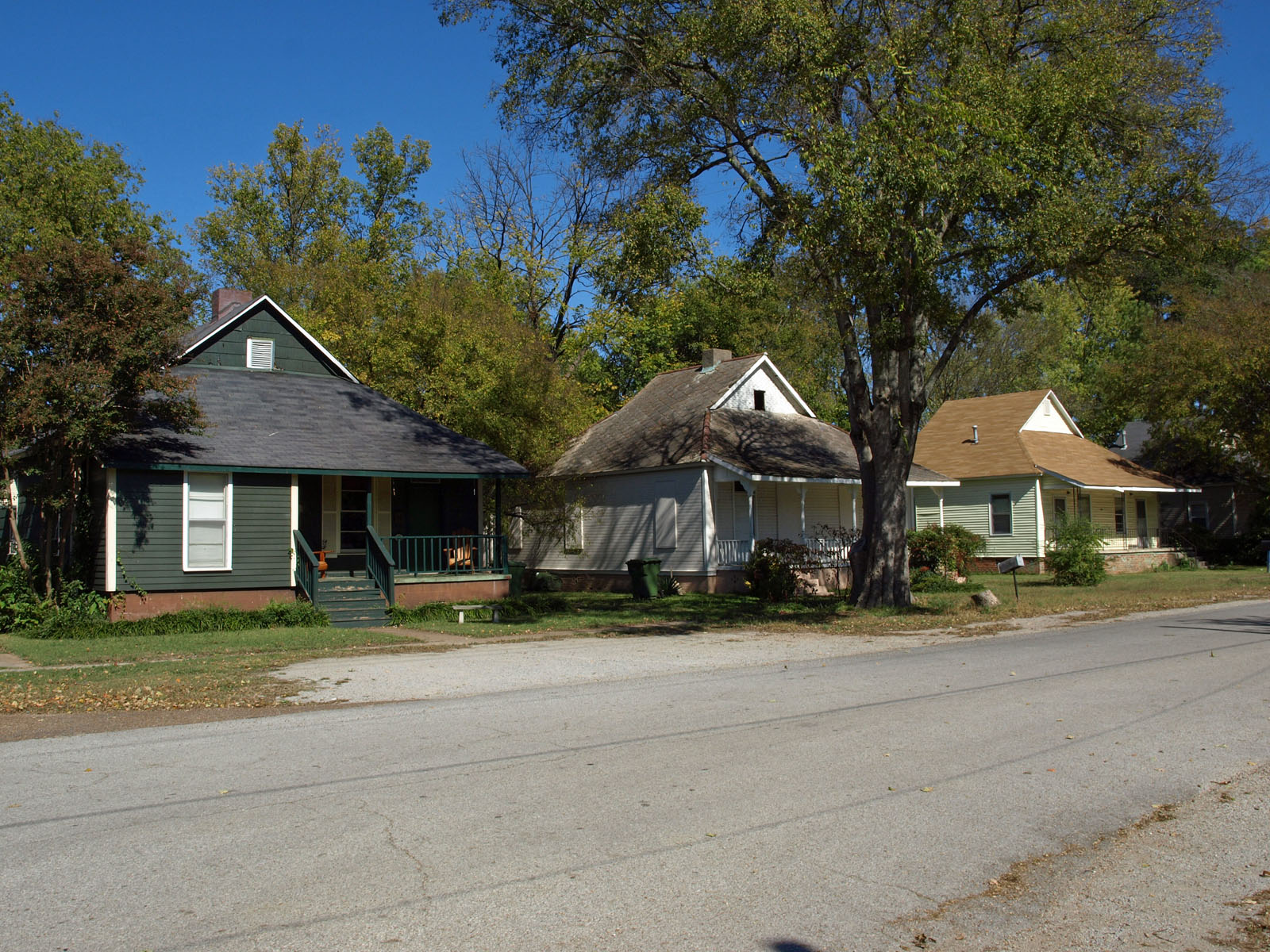 The 500 block of O'Shaughnessy Avenue in Huntsville, Alabama, part of the Dallas Mill Village Historic District.